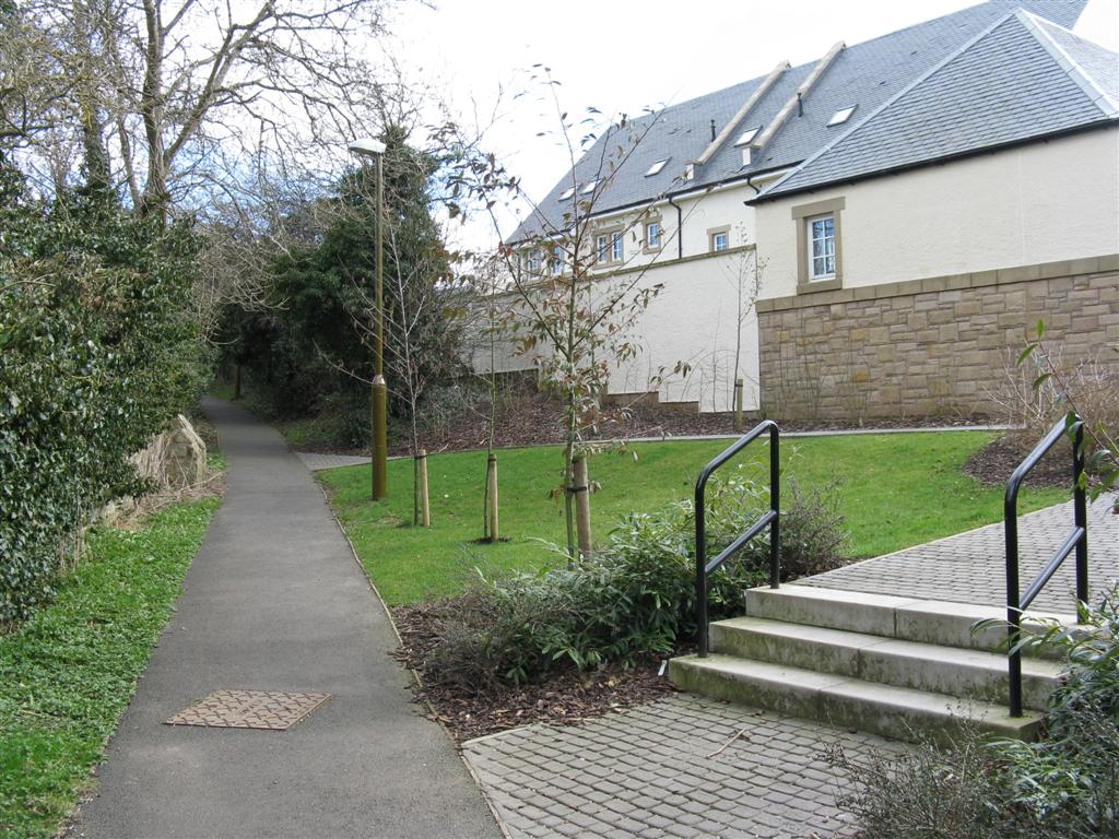 Path from Gifford Gate to Gifford Road With the steps to the right leading up into a new housing development, Nungate Gardens.